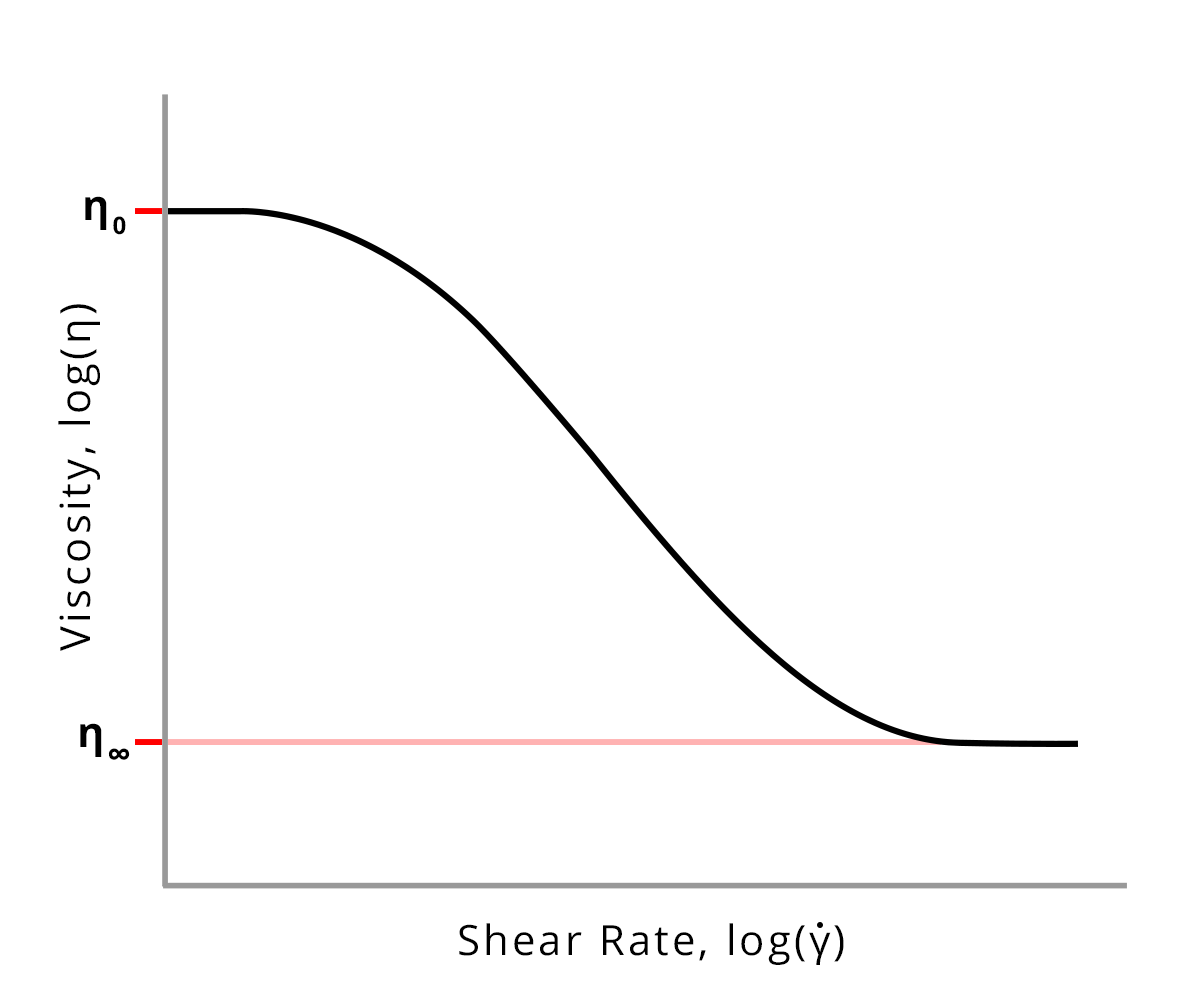 Shear thinning behavior of polymeric systems, viscosity vs. shear rate